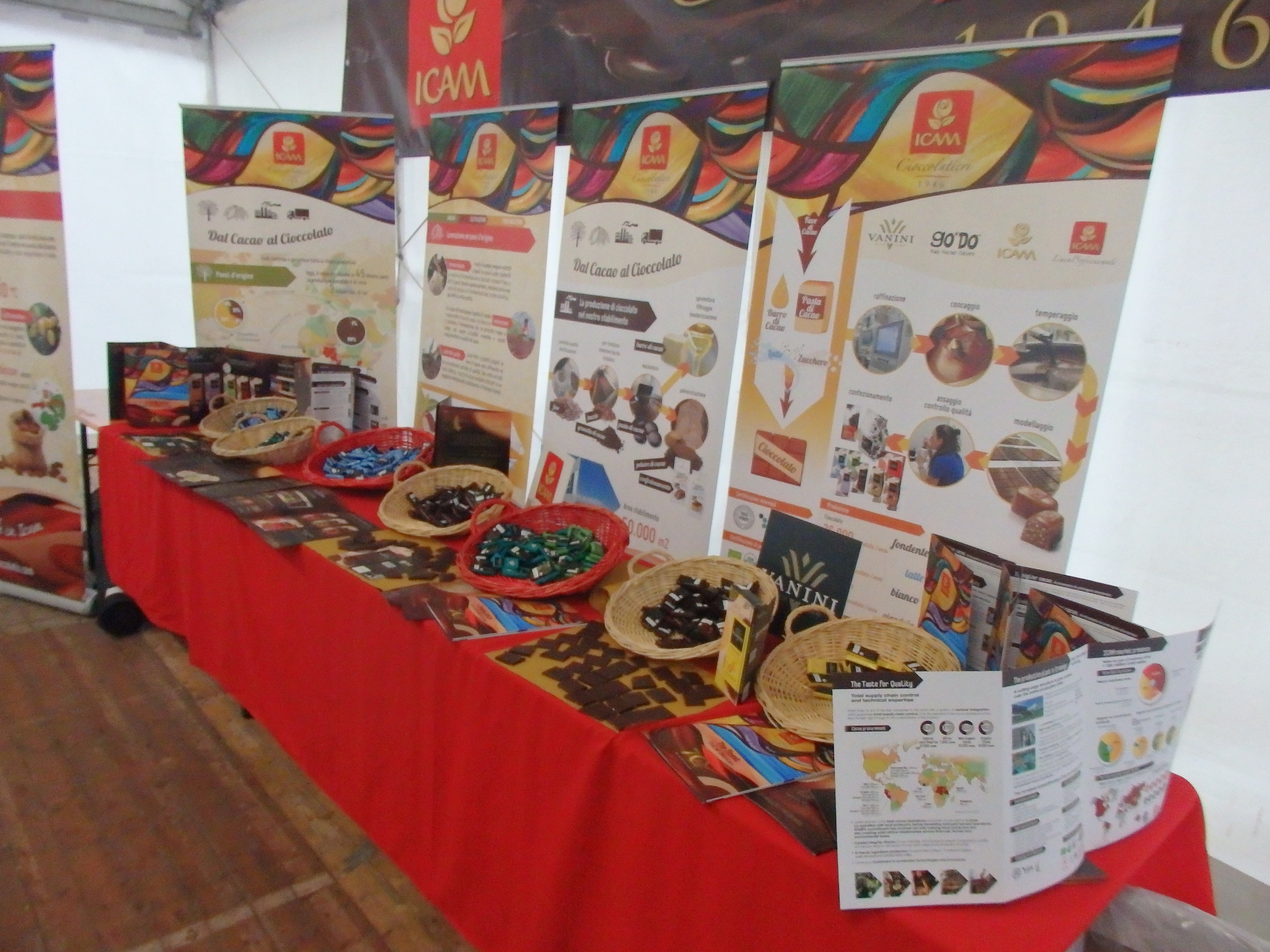 Wikimania 2016 (Esino Lario), chocolate corner by ICAM with chocolate give away.